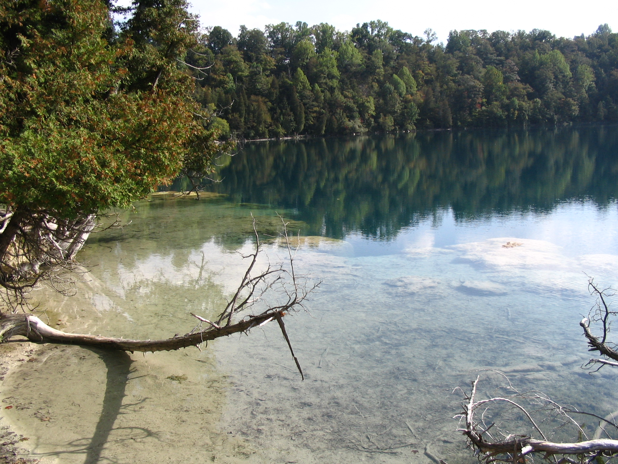 Deadman's Point at Green Lake in Green Lakes State Park, New York. "Marl reef", bacteria formed chalky shoreline formations, are visible in the foreground.